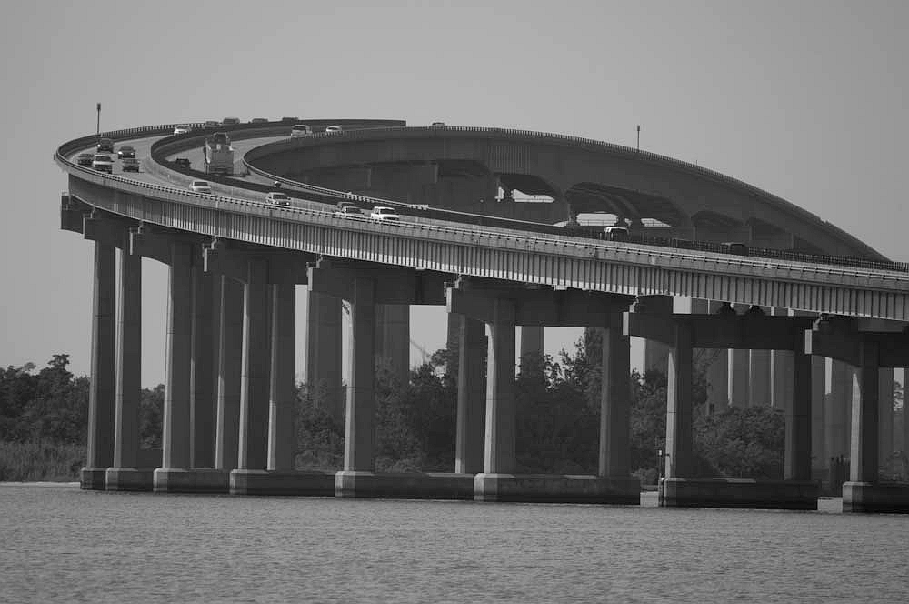 Interstate 210 crosses the Israel LaFleur Bridge in Lake Charles, Louisiana, passing over Prien Lake.